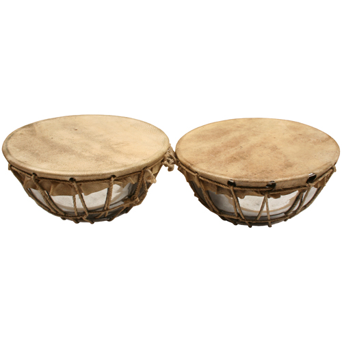 Arabic and Indian drum